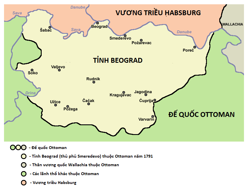 "Pashaluk of Belgrade (Sanjak of Smederevo) within Ottoman Empire in 1791" translated into Vietnamse